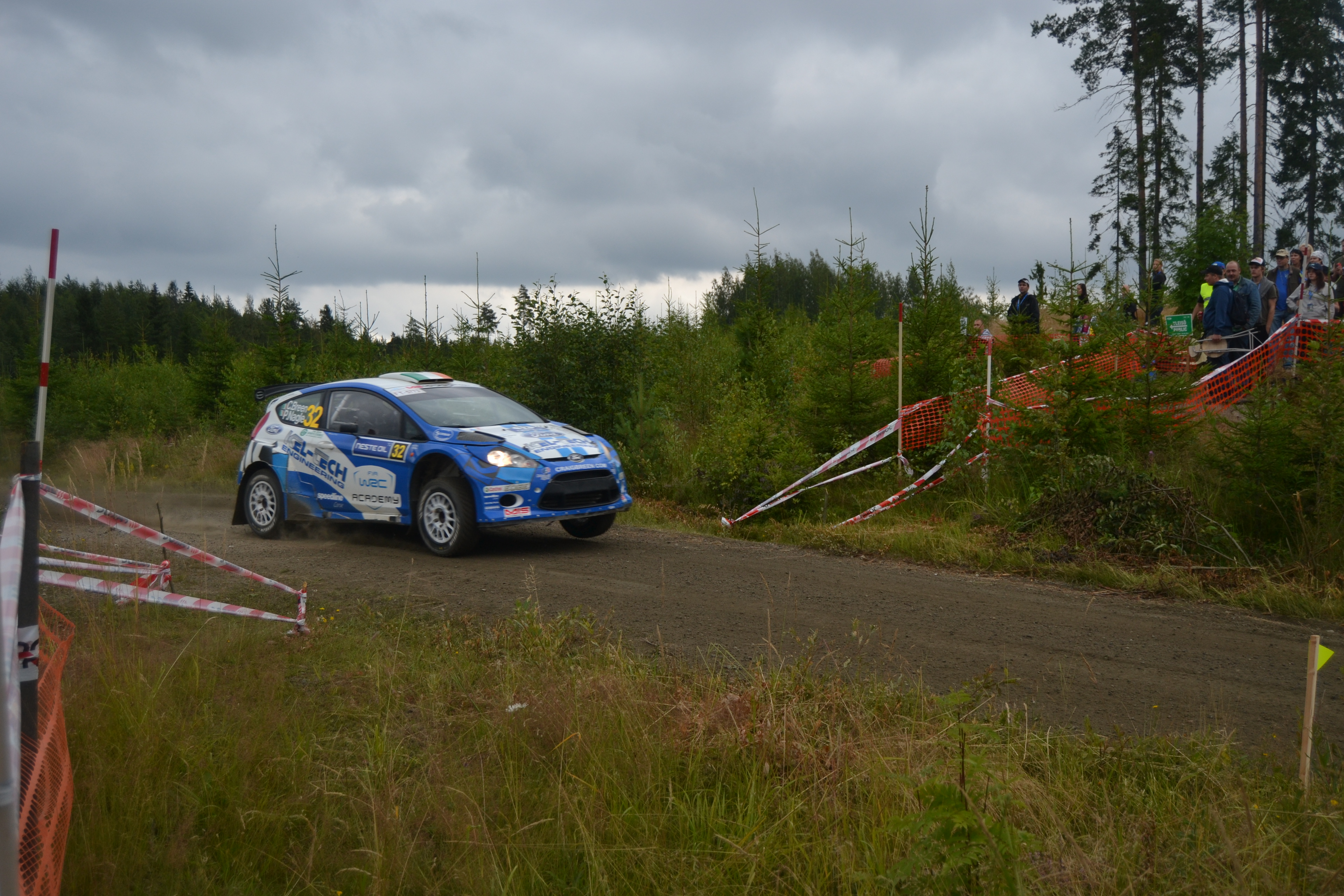 Craig Breen at 2nd Surkee stage at 2012 Rally Finland Unknown